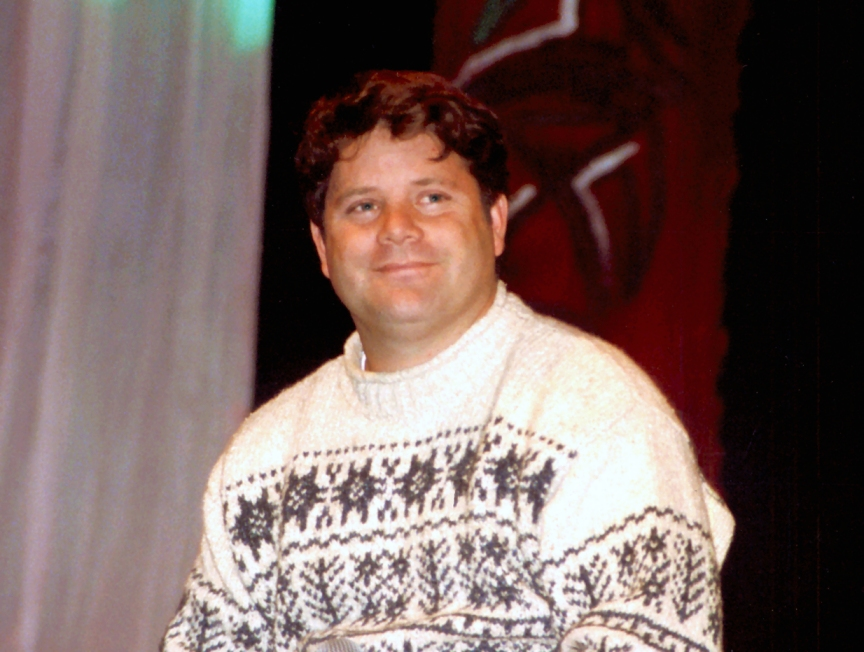 American actor Sean Astin at the Lord of the Rings-Convention Ring*Con 2006 in Fulda, Germany.